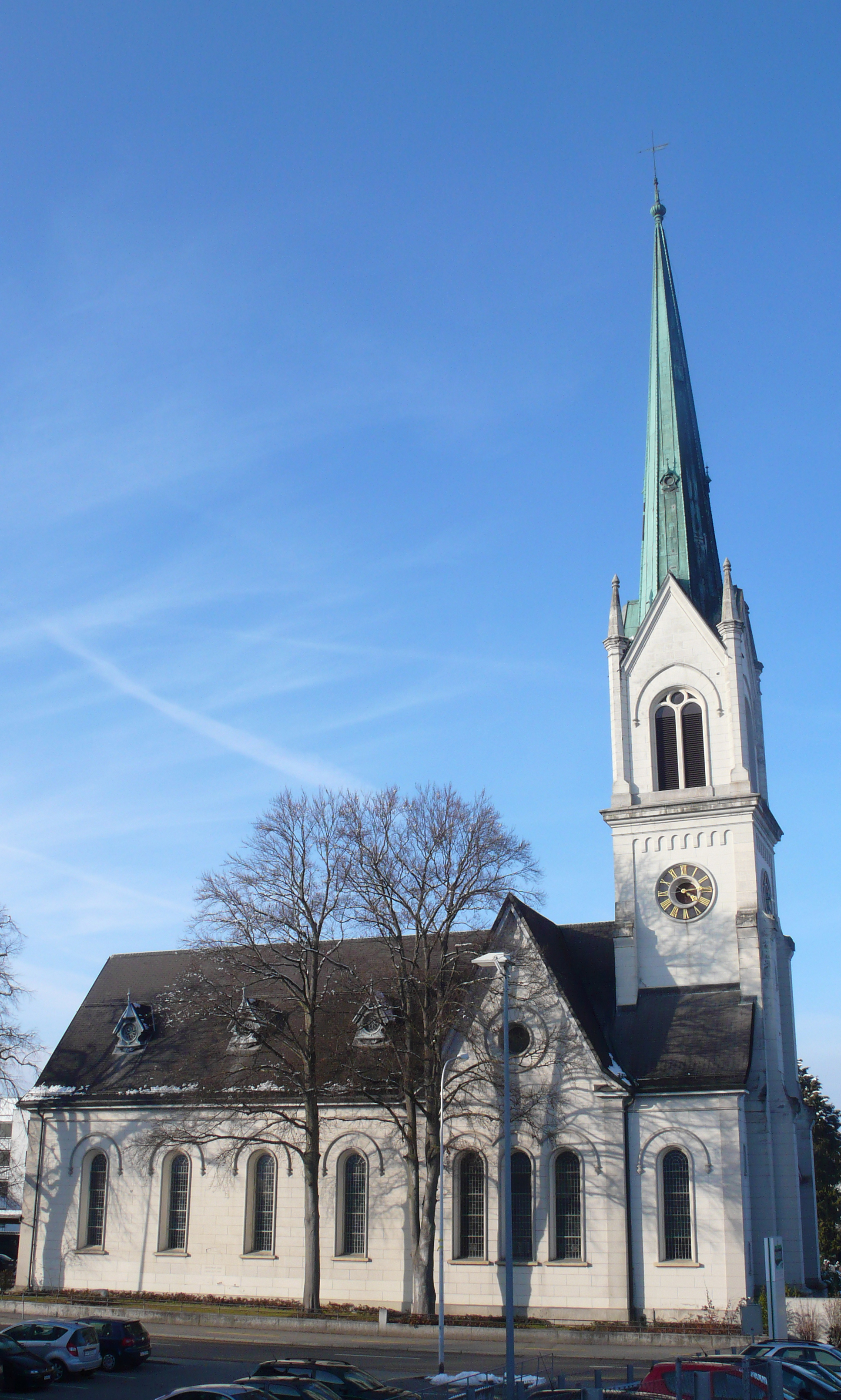 Protestant church in Kreuzlingen, Switzerland.